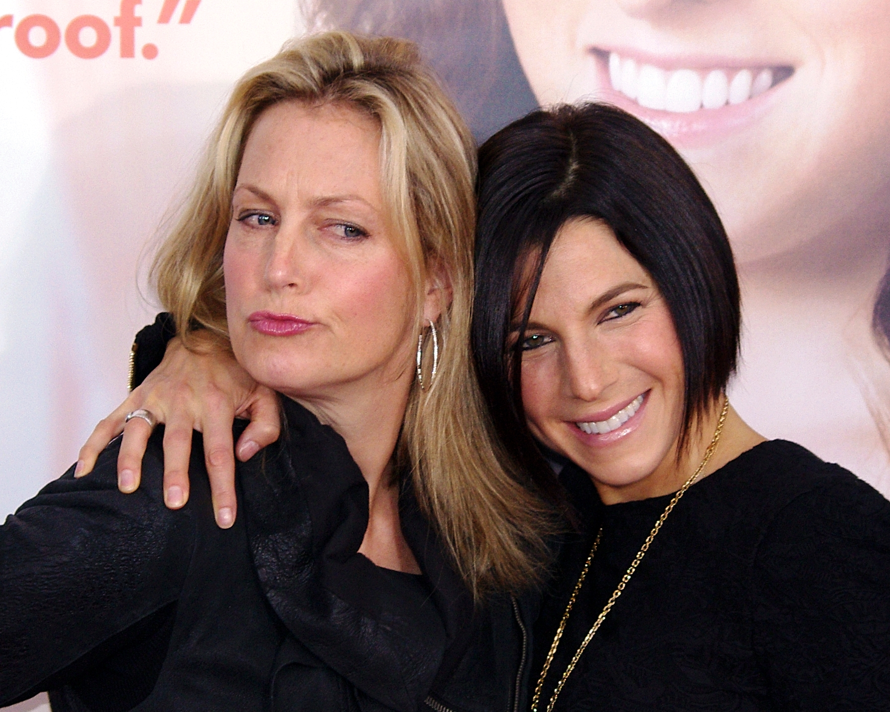 Ali Wentworth and Jessica Seinfeld at the 2012 premiere of What to Expect When You're Expecting in New York